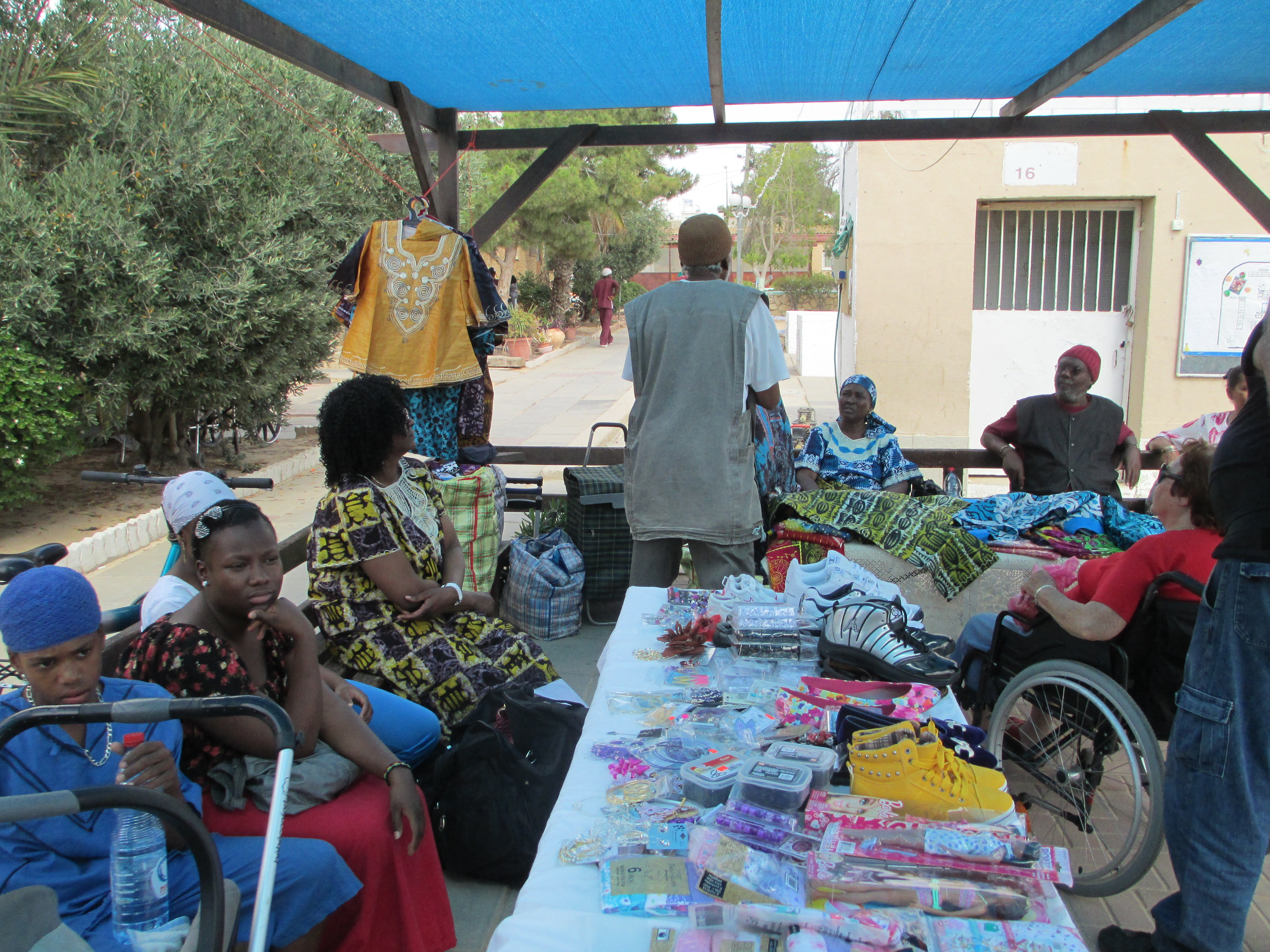 Africans Hebrew Israelites in Dimona